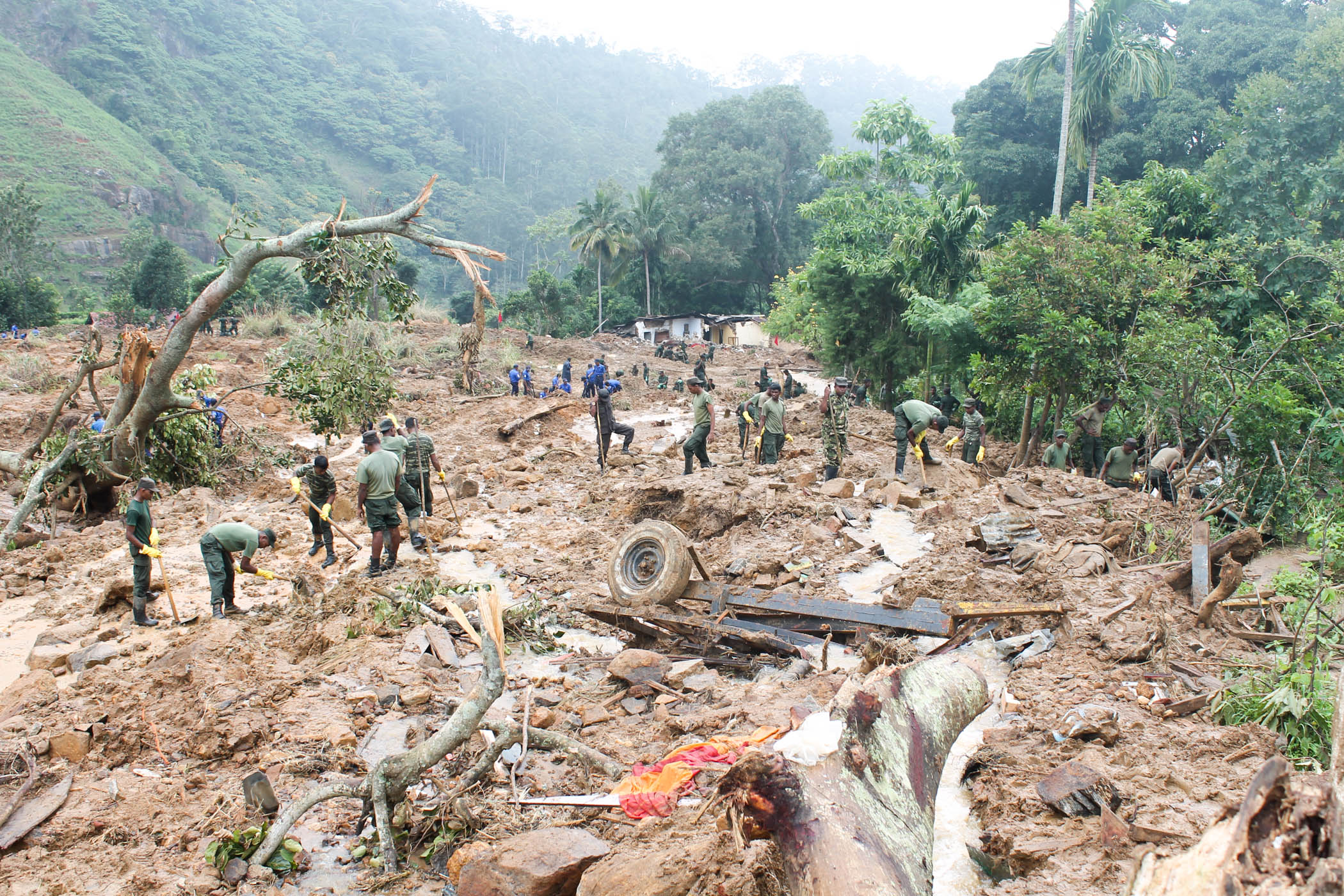 IMG_5174 Aftermath of the landslide in Koslanda, Badulla District, Sri Lanka in November 2014.